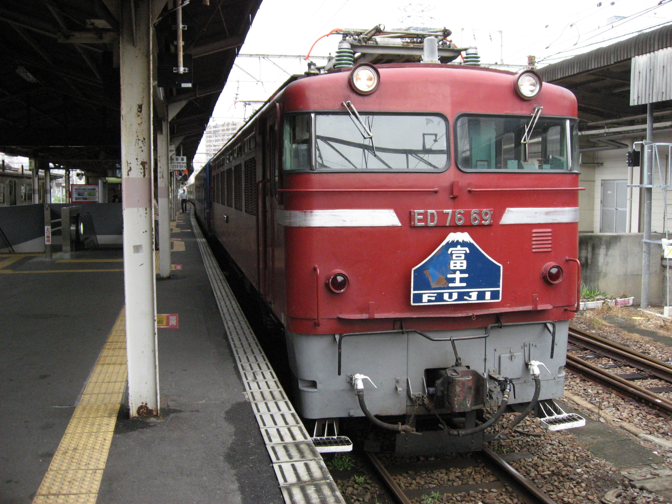 JR Kyushu Class ED76 electric locomotive ED76 69 at Oita Station shortly after arriving with the Fuji overnight sleeping car service from Tokyo